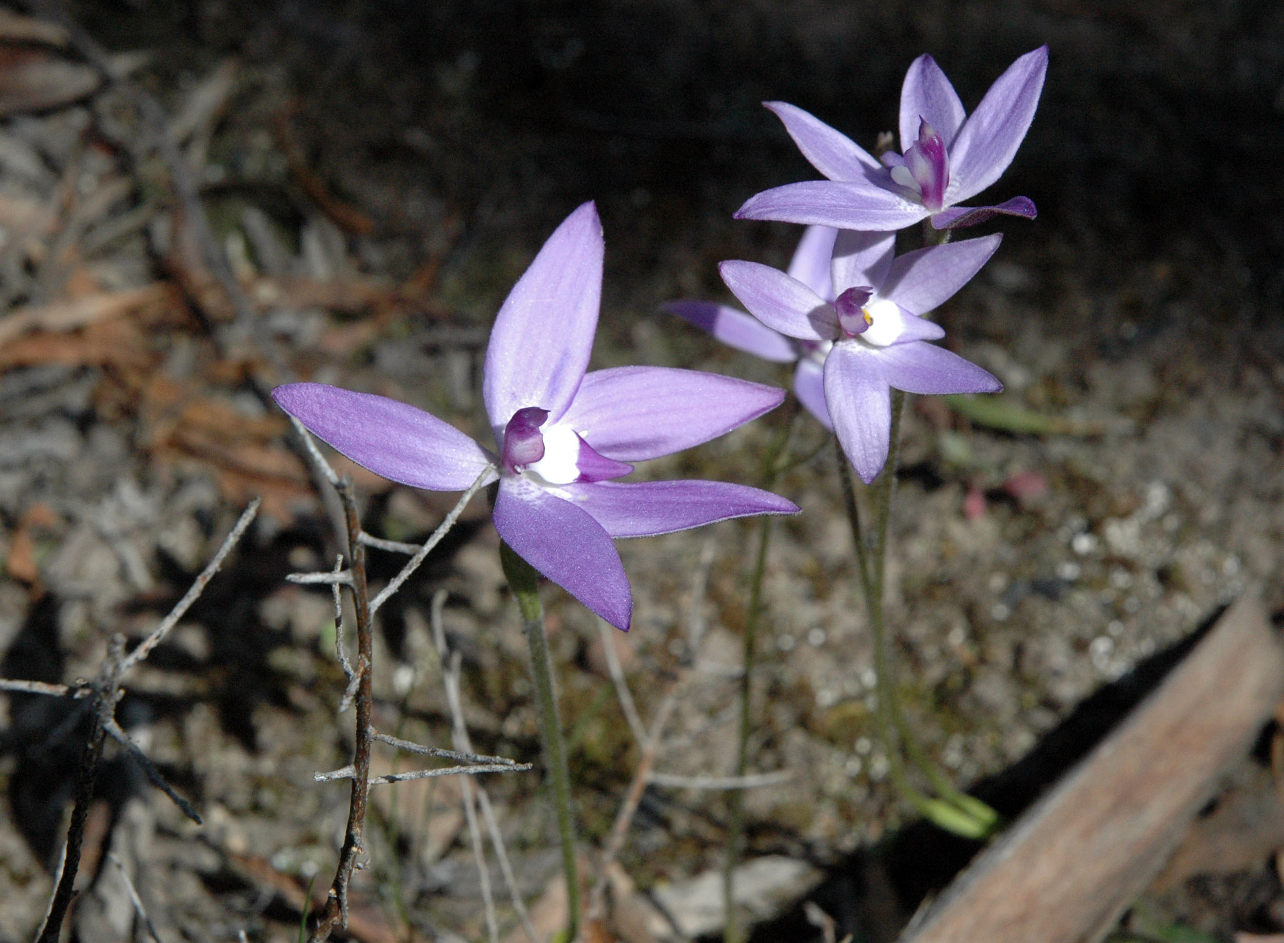 Wax Lip orchid, Glossodia major, Tasmania.